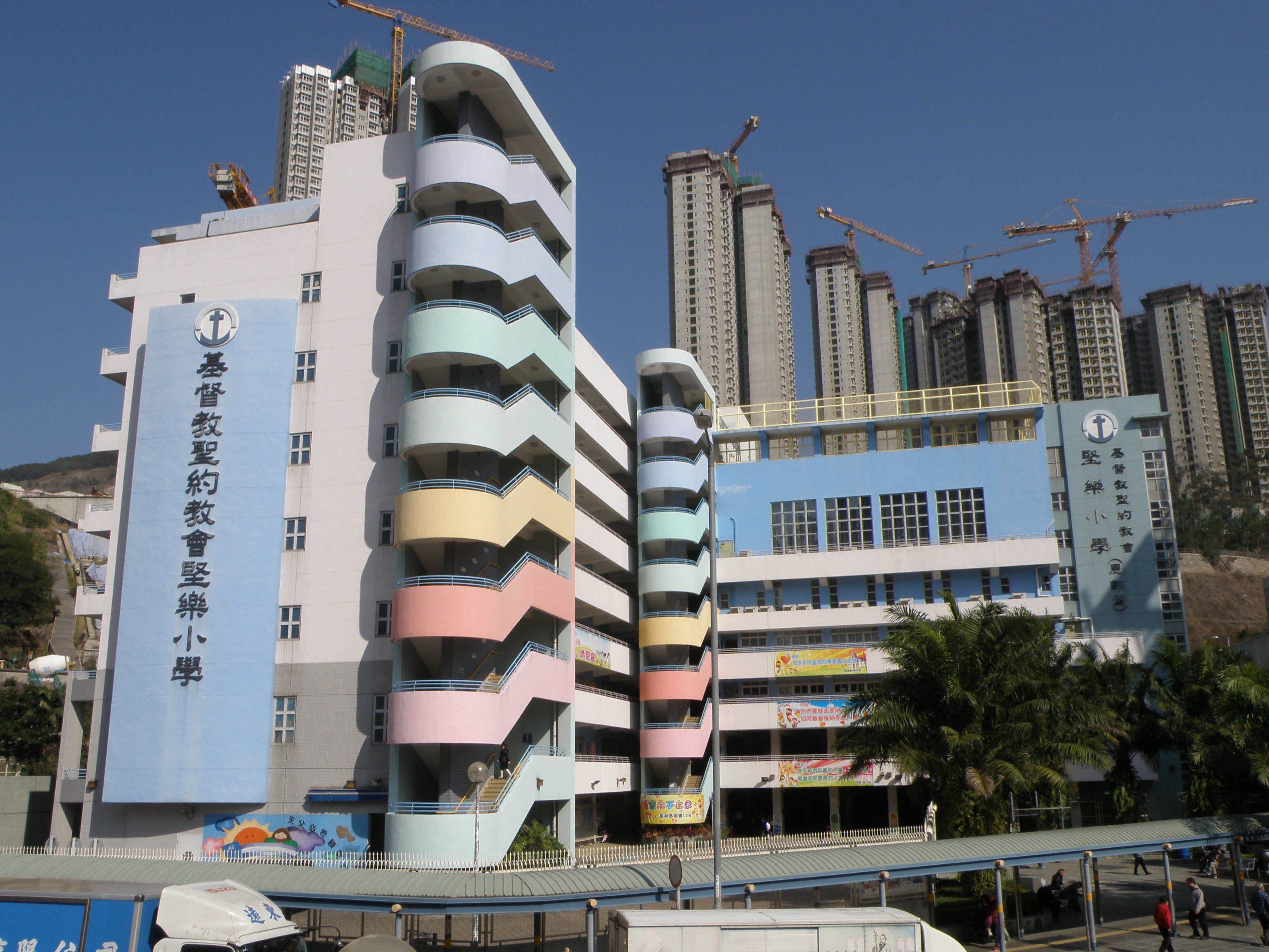 The Mission Covenant Church Holm Glad Primary School in Sau Mau Ping, Hong Kong.